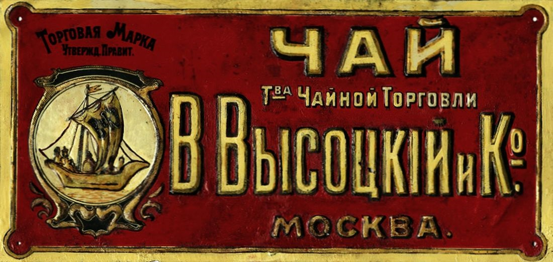 Wissotzky Tea package, top view